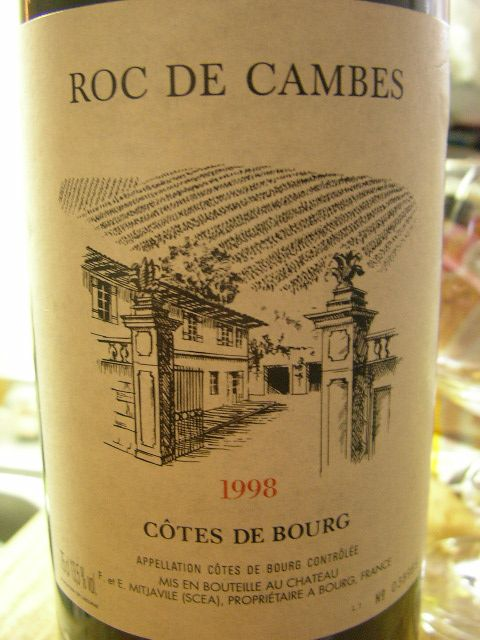 Roc de Cambes 1998, a French wine from the Bordeaux right bank wine region of the Cotes de Bourg